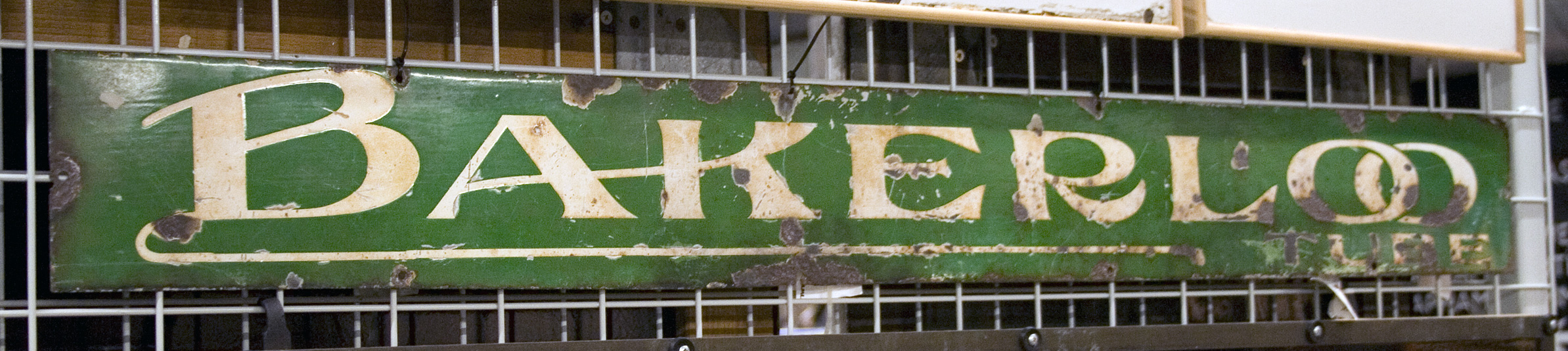 Preserved "Bakerloo Tube" sign, 1910s – 1920s? Located in the London Transport Museum Depot, Acton.